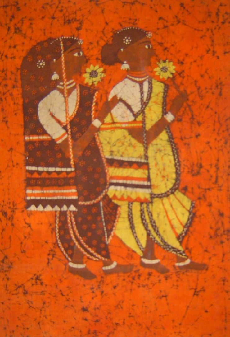 A photo of a Batik painting depicting two Indian women.